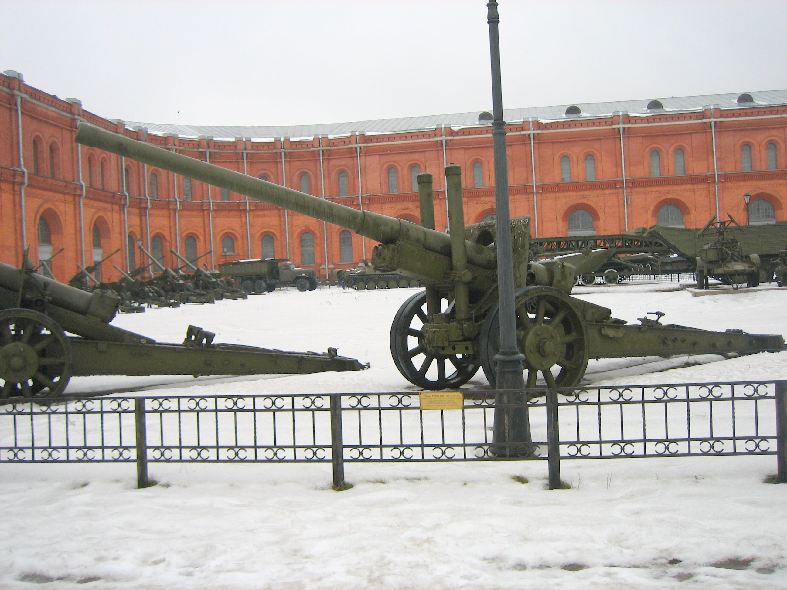 Soviet 122 mm А-19 Mark 1931 gun, displayed in Saint Petersburg Artillery Museum. Photo taken on 3 Marсh, 2007. Source: Photo by me, User:Saiga20K.